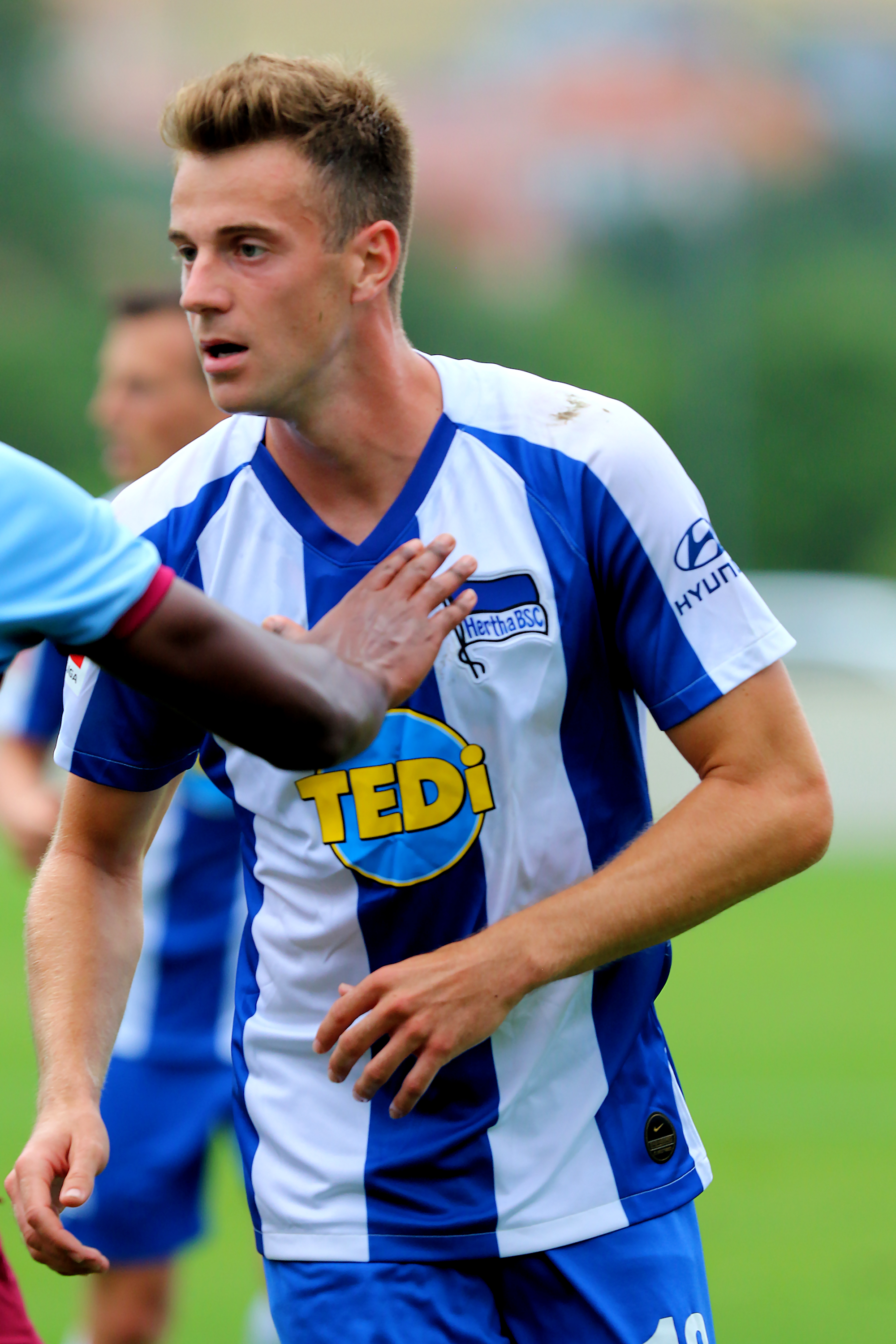 Friendly match Hertha BSC (blue-white shirts) vs. West Ham United (red-blue shirts) at 31-07-2019 3-5 (3-2) in the Sonnenseestadium in Ritzing. – The photo shows Lukas Klünter (Hertha BSC).